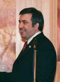 Mikheil Saakashvili, president of Georgia. Original description: Parliament Tbilisi, Georgia January 25, 2004 Secretary Powell with Georgian President-Elect Mikheil Saakashvili at their press briefing just before the inauguration.